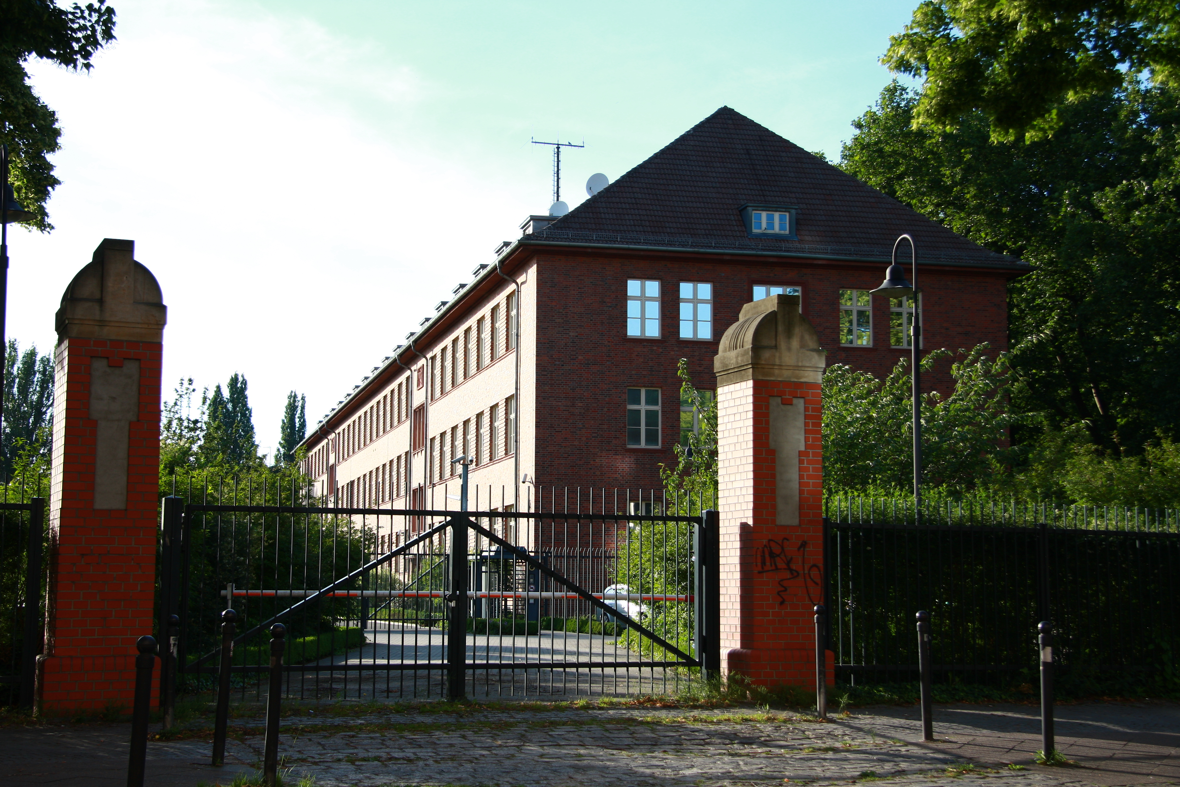 n/a